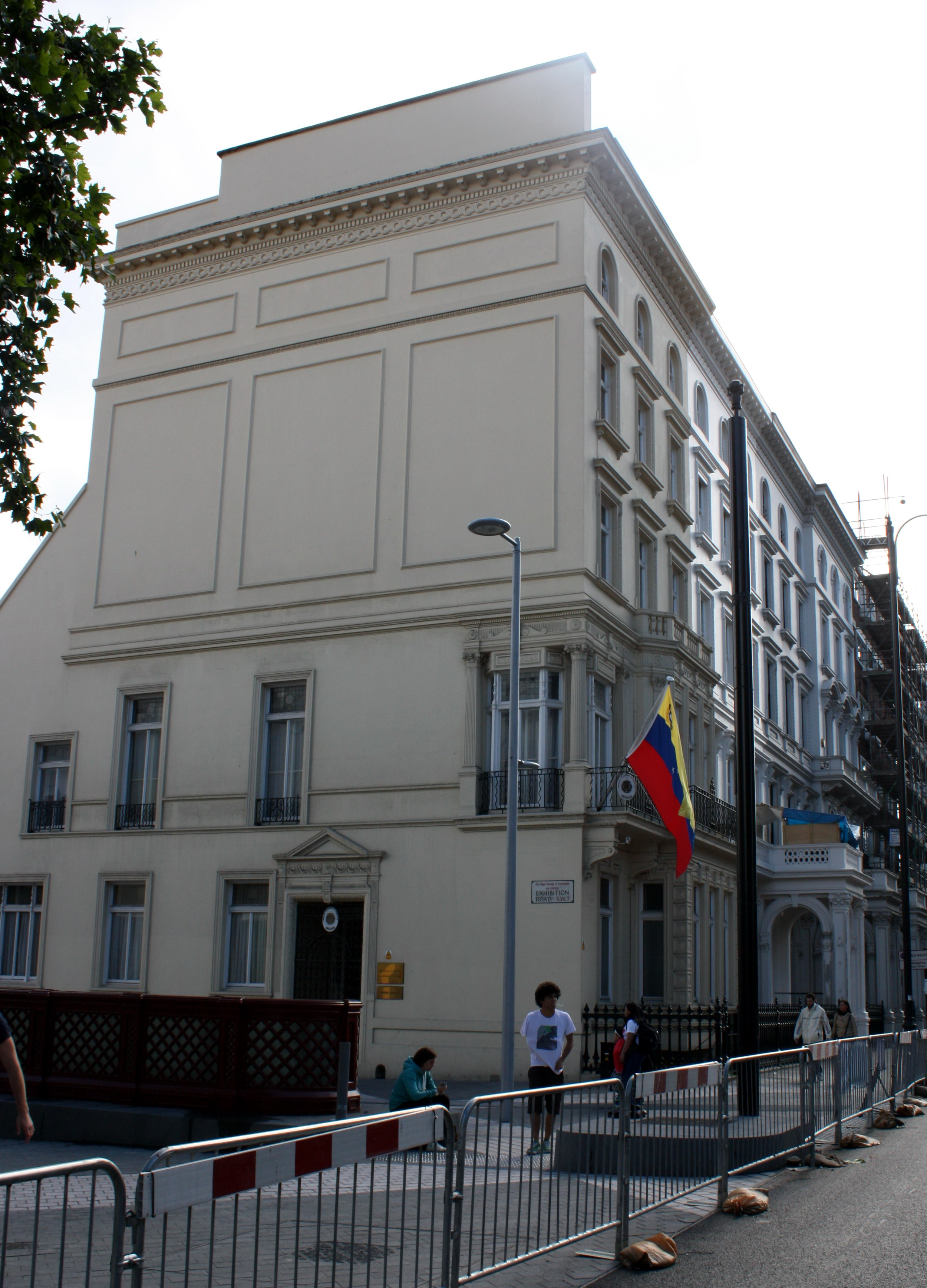 Embassy of Venezuela at 1 Cromwell Road, South Kensington, London, SW7 2HW, - United Kingdom